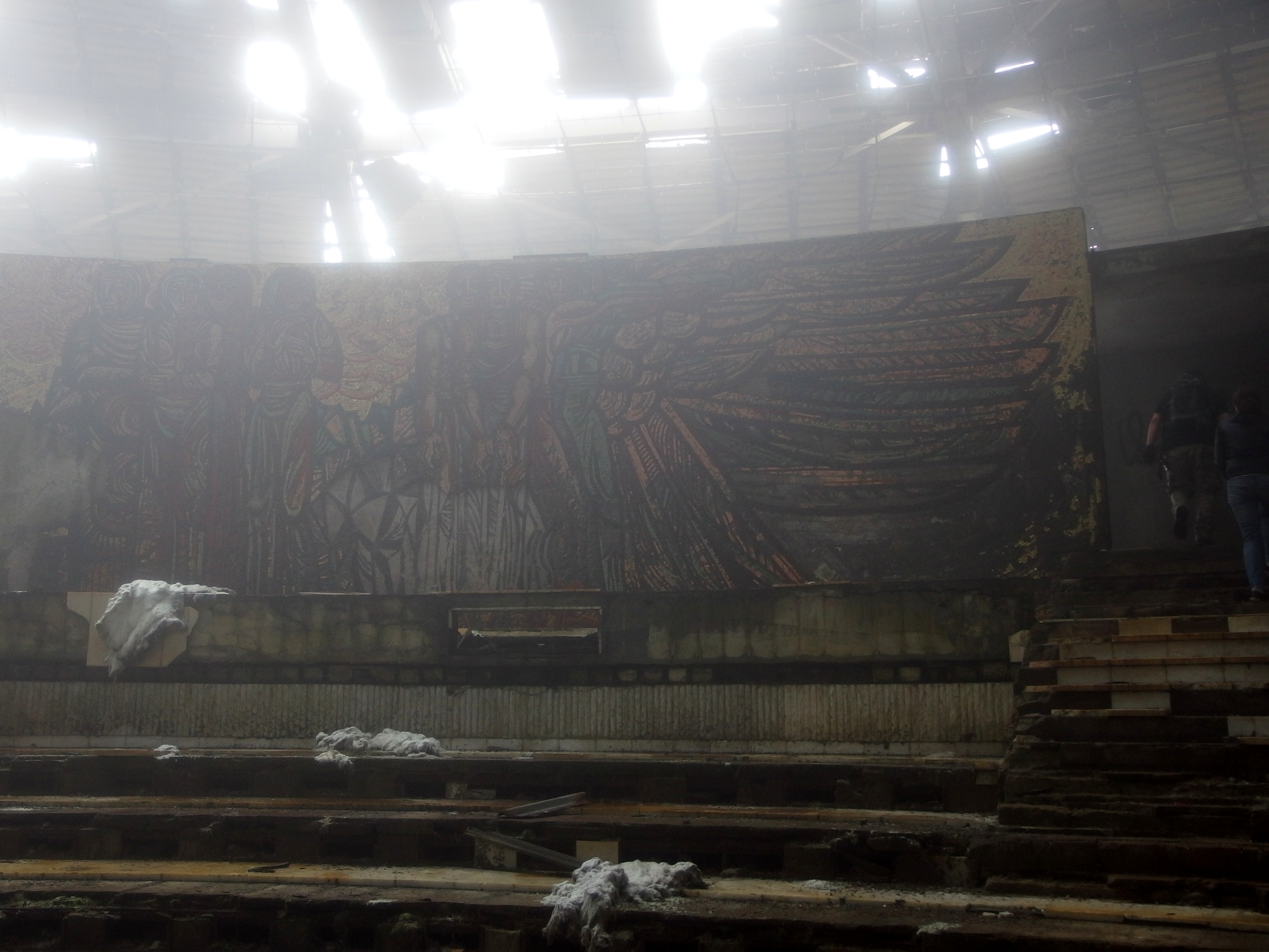 2014-06-18 at Buzludzha.